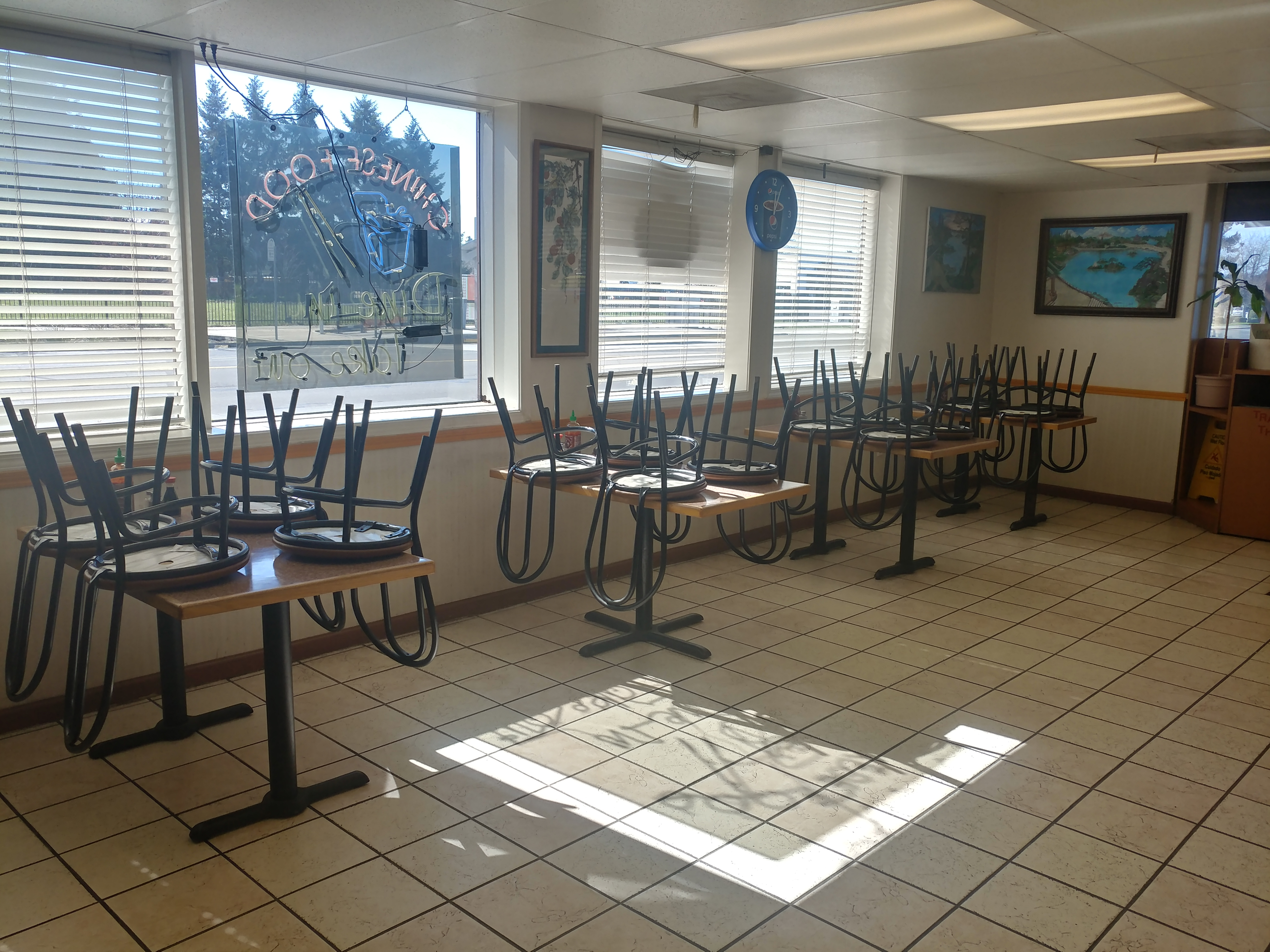 Interior of Golden China, a chinese food restaurant located at 5406 NE Fourth Plain Blvd in Vancouver, Washington. Chairs are not set out as precautions for the 2019/2020 COVID-19 pandemic as ordered by Washington Governor Jay Inslee on 2020-03-15. Photograph taken on 2020-03-16T19:01:59Z.